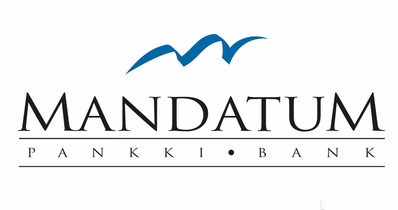 Logo of Mandatum Bank Co., a Finnish Investment Bank that existed in Finland during the years 1998-2001 (Mandatum & Co was established 1992), before being acquired by Sampo Group. It was further merged to Danske Bank when Sampo Group sold its banking business in 2007. Logo made from an example of a picture in company's annual report 2000.